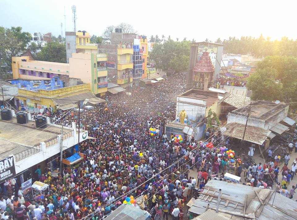 Chithirai Festival Special.